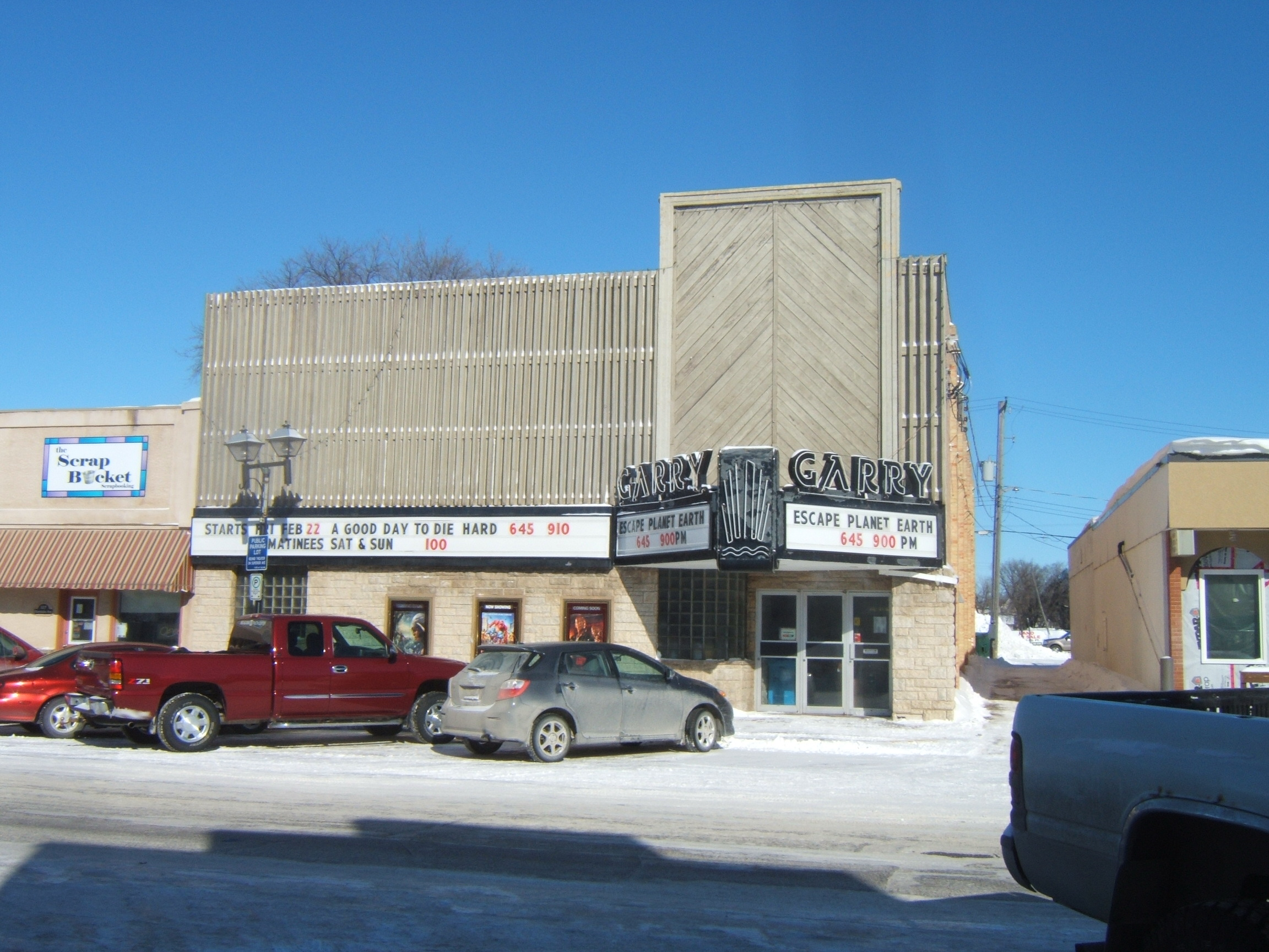 The Gary Theater on Manitoba Ave, Selkirk, Manitoba, Canada. Picture was taken on February 19th 2013.